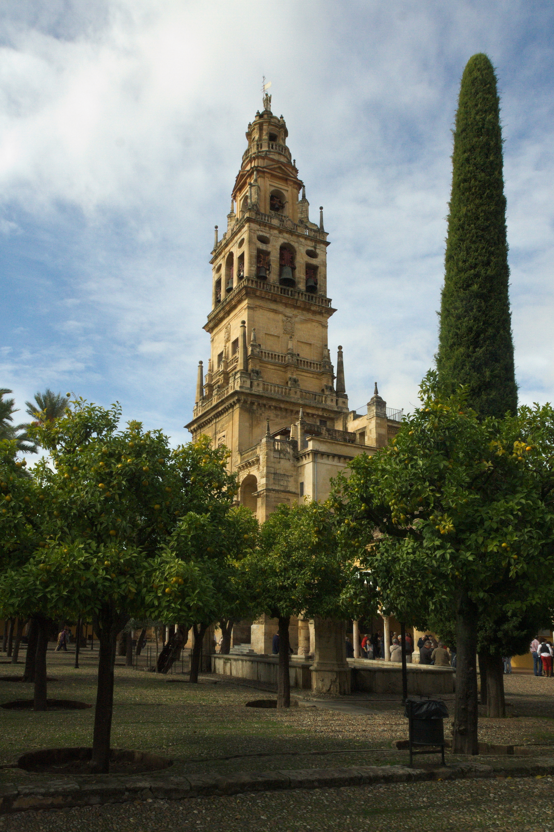 Mezquita de Córdoba - Bell Tower from Court of Oranges